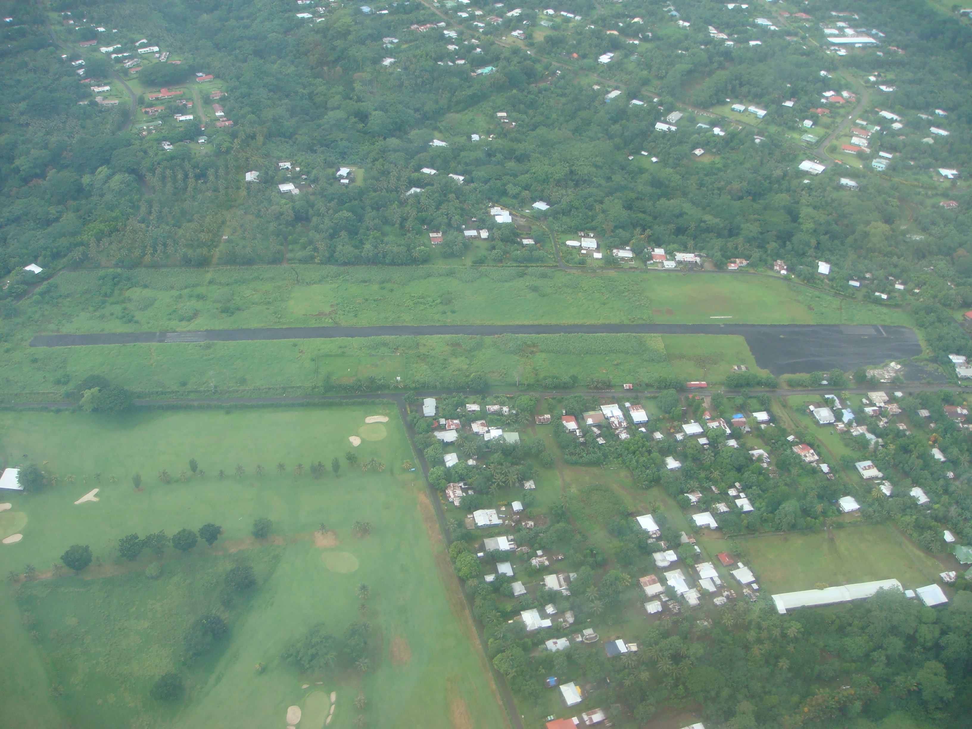 Aerial Photograph of Fagali'i International Airport (Upolu Island -Decommissioned in 2005 by Samoan Government.) VFR only operations due to close proximity to rising terrain at either end. Suitable for STOL aircraft only, DHC 6 Twin Otter aircraft and BN2 Islanders operated into Fagalii up until its decommissioning in 2005.